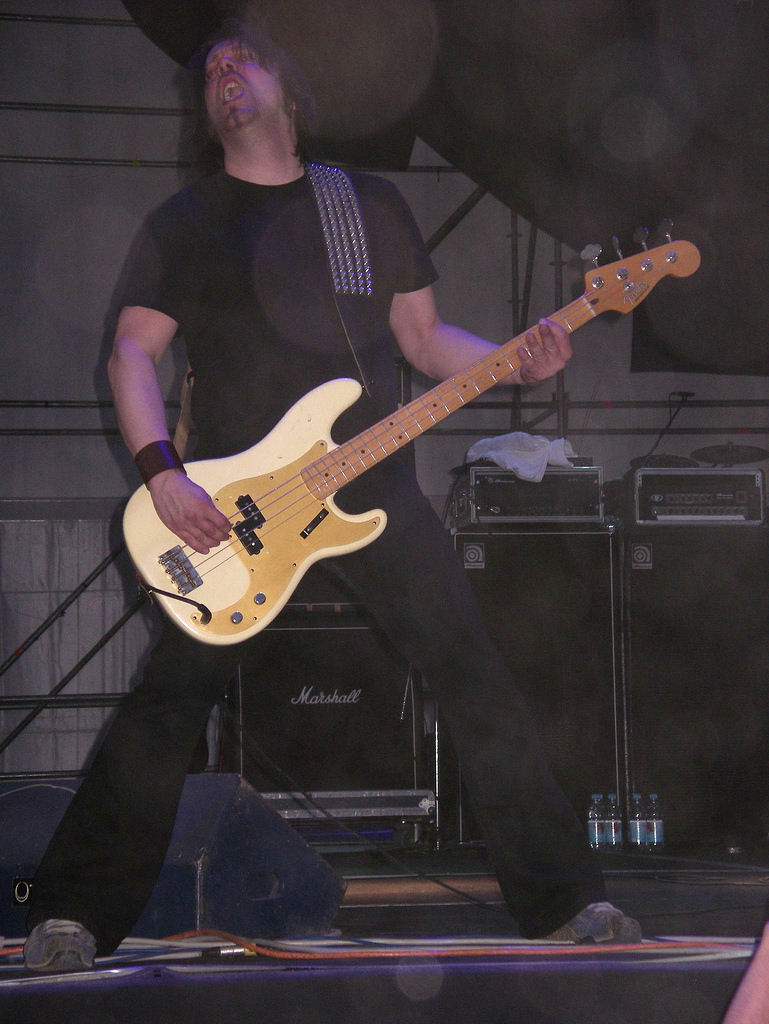 Leif Edling, bassist of Swedish Heavy metal band Candlemass